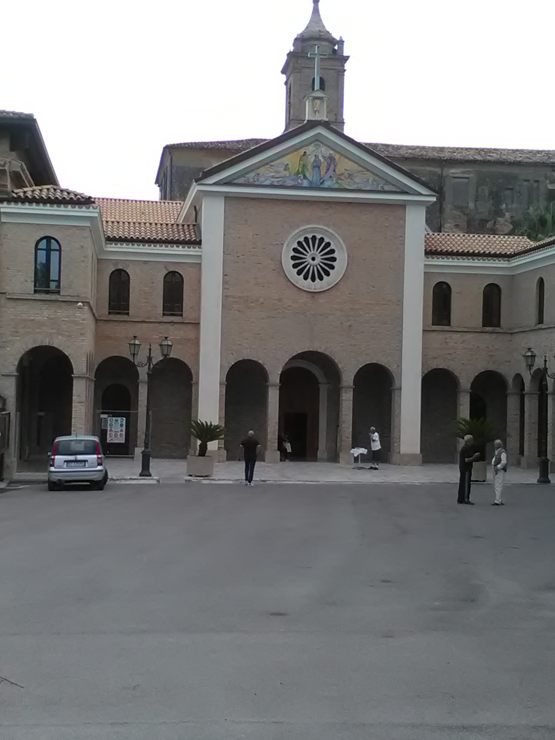 Faòade of Shrine Madonna dello Splendore in Giulianova, Italy